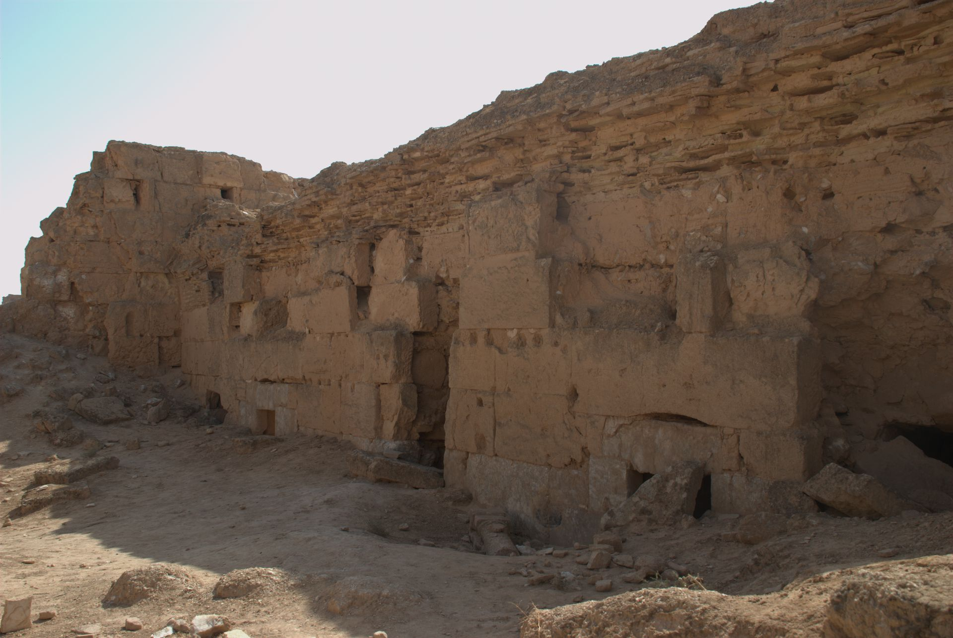 Resafa, Syria, Khan